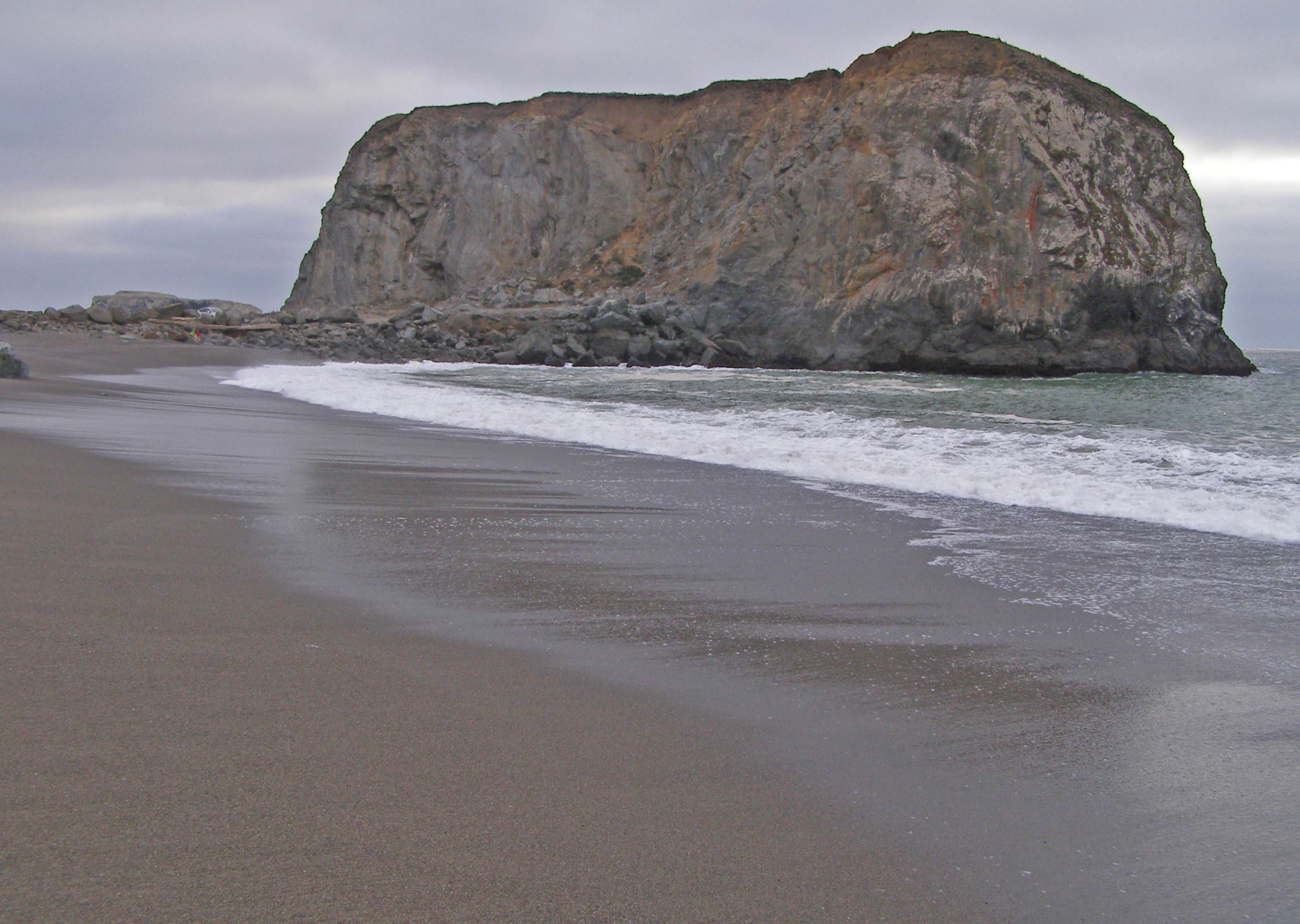 goat rock, so county calif